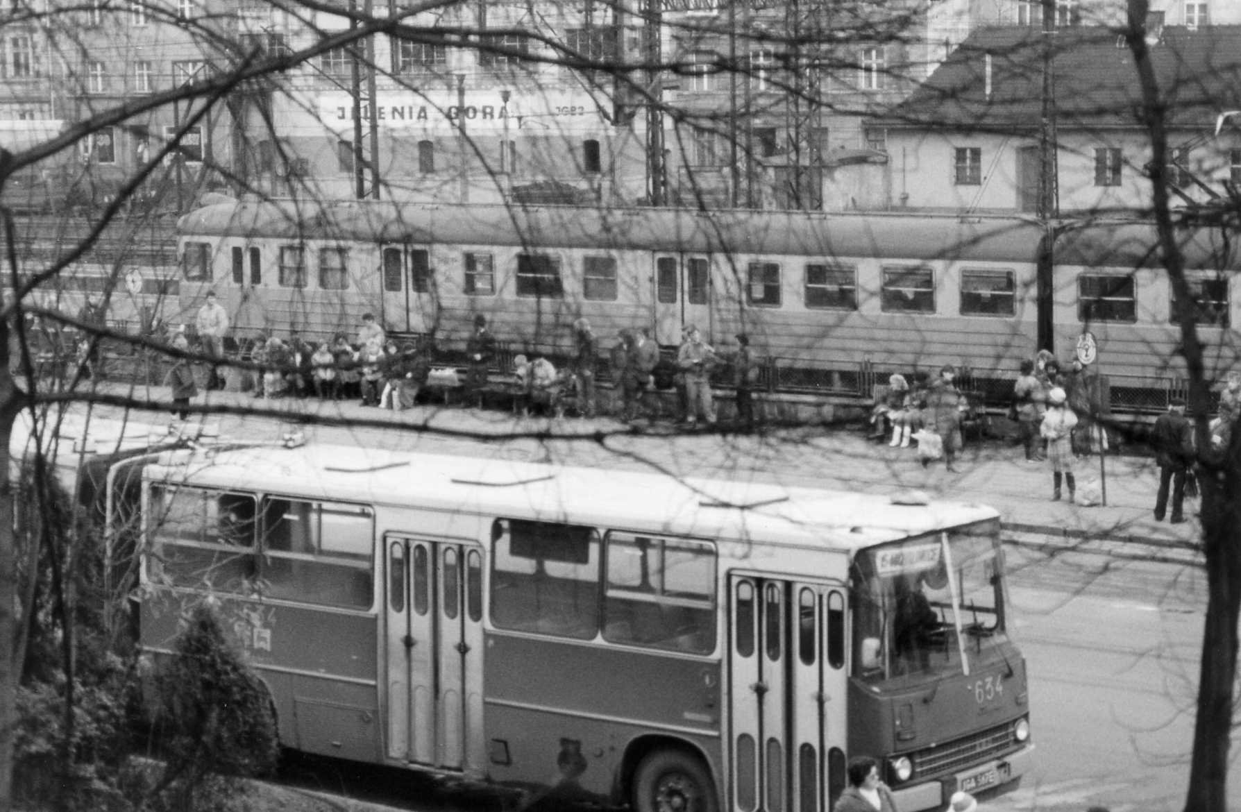 Ikarus 280.26 bus no. 634 in Jelenia Góra train station, Poland, November 1989. Built 1986, WPK Jelenia Góra operator (next MZK Jelenia Góra).